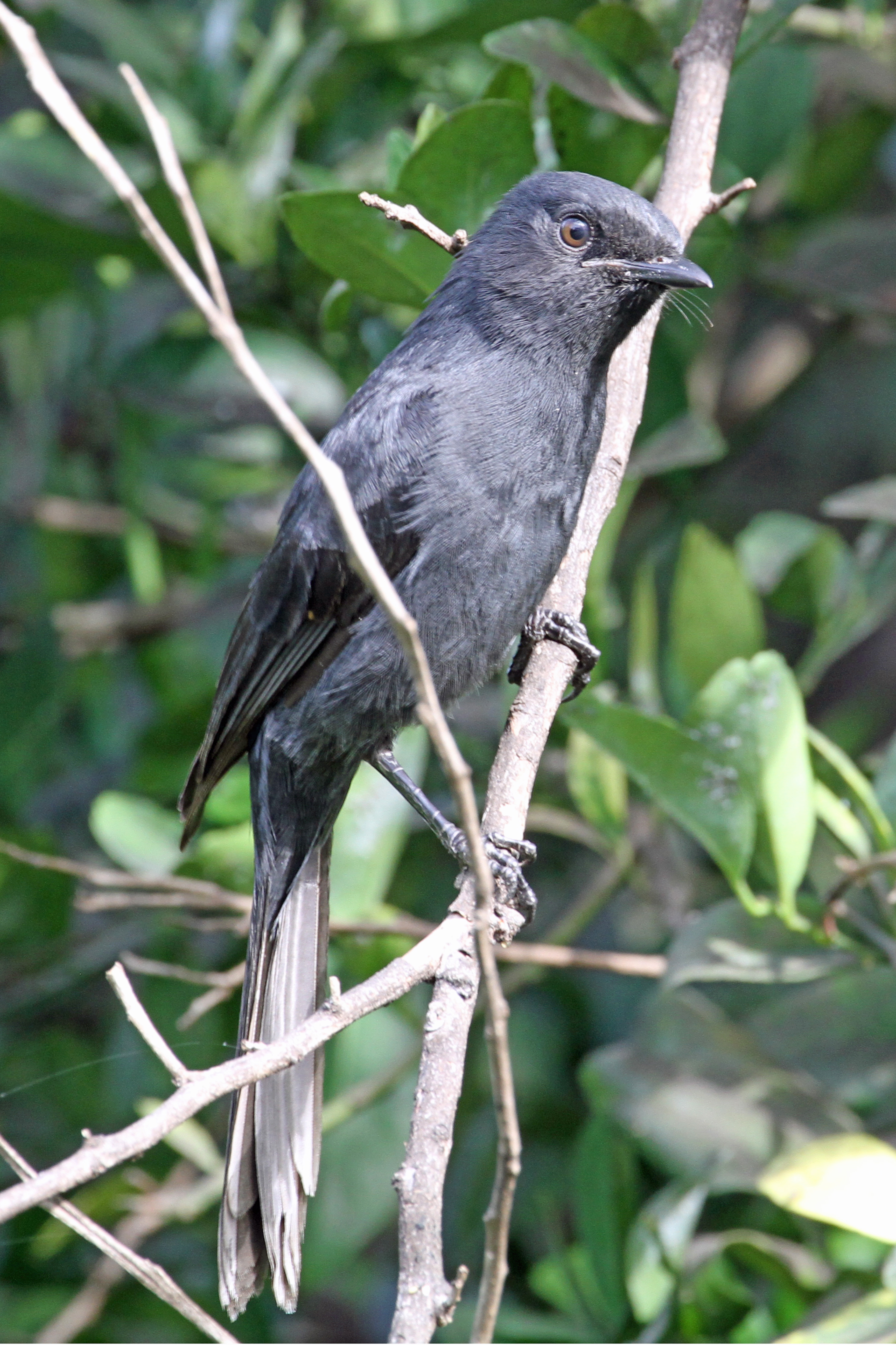 A Northern Black Flycatcher in Banjul, Gambia.